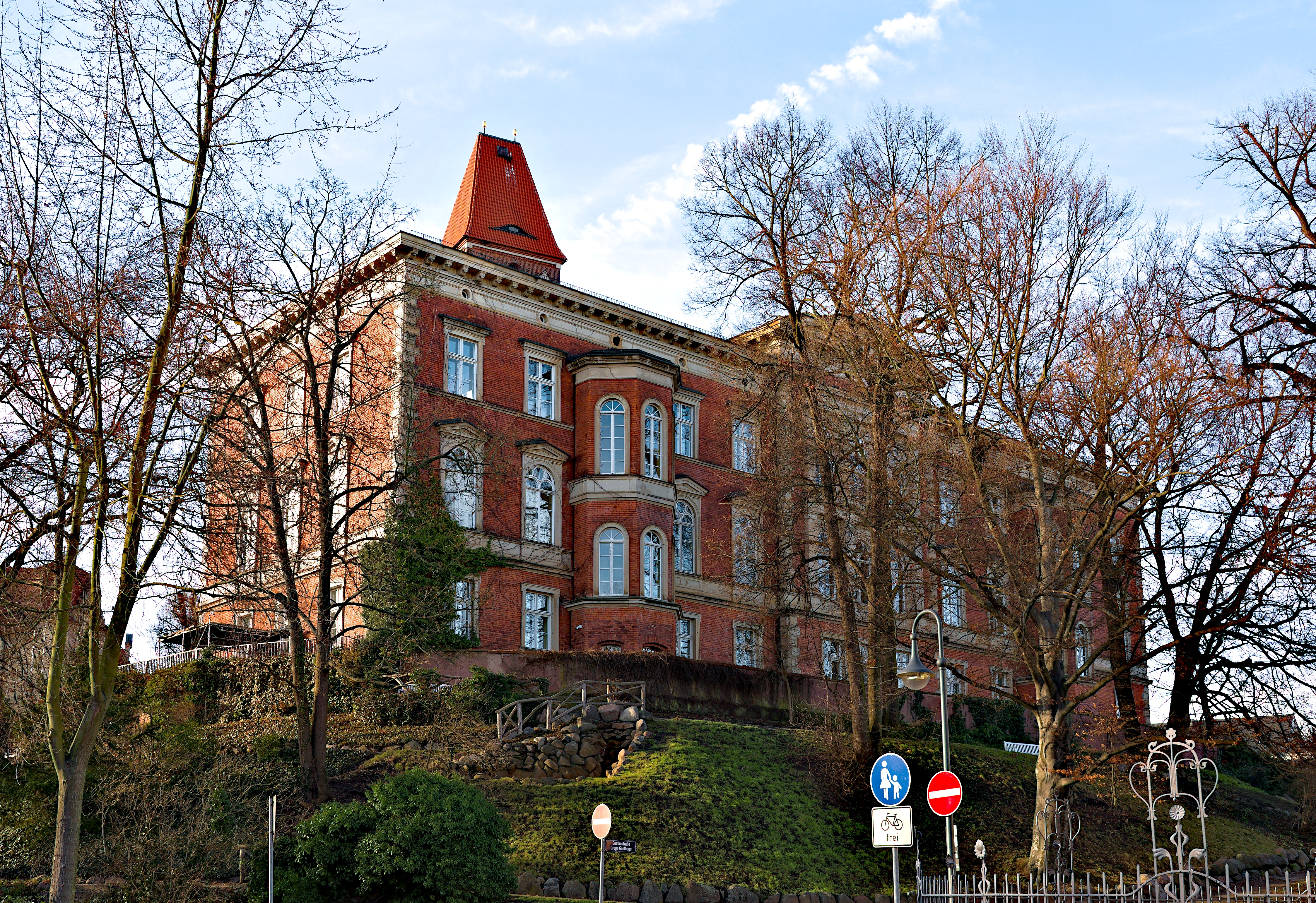 The Schlossberg and district court Landgericht Cottbus, Gerichtsstraße 3/4 in Cottbus-Mitte.